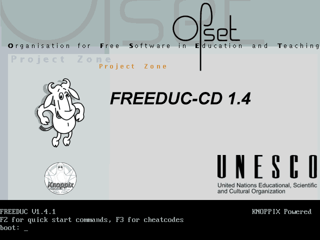 Boot splash image for Freeduc-CD 1.4, with the logo of UNESCO